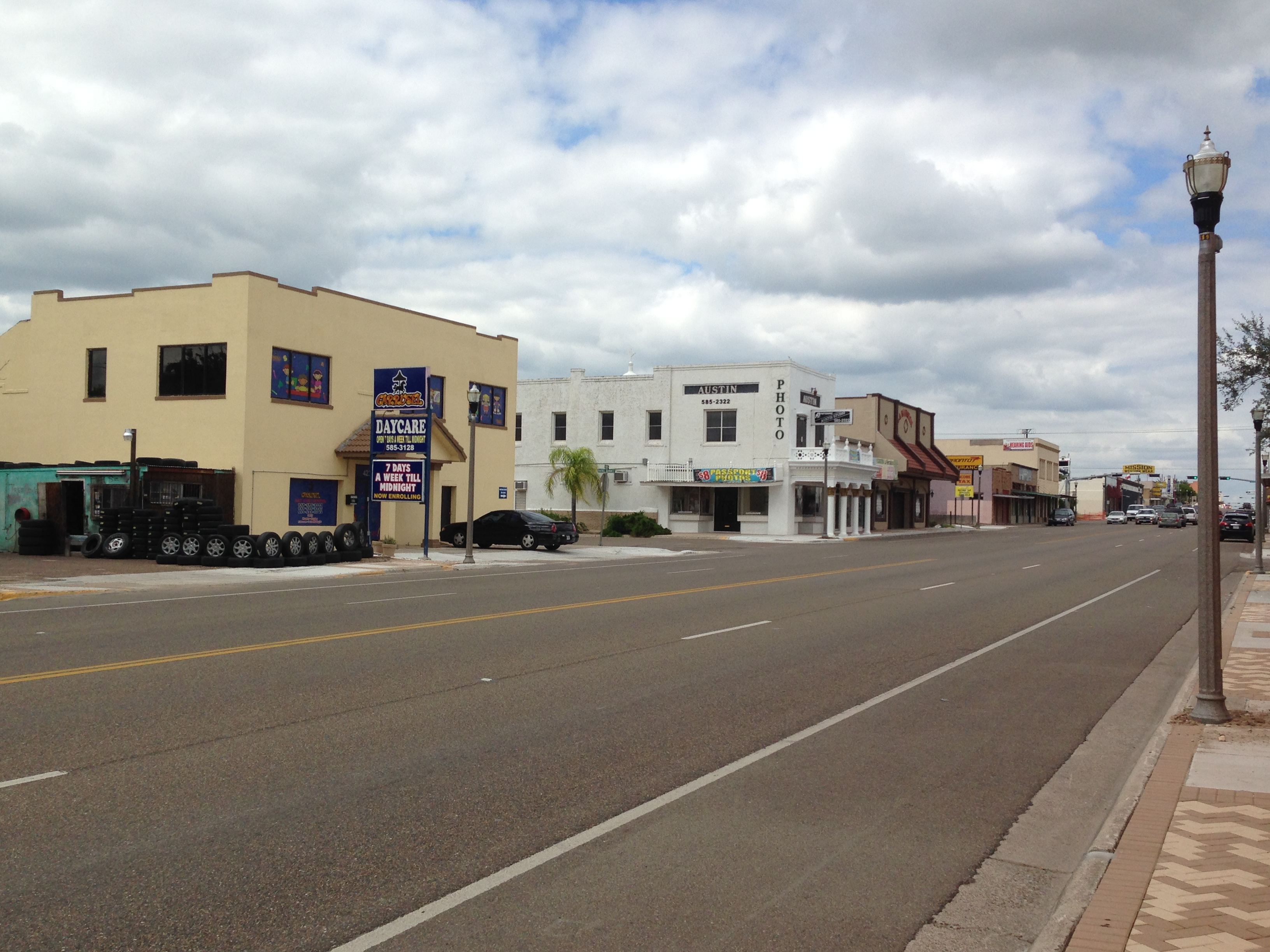 Lomita Boulevard Commercial Historic District